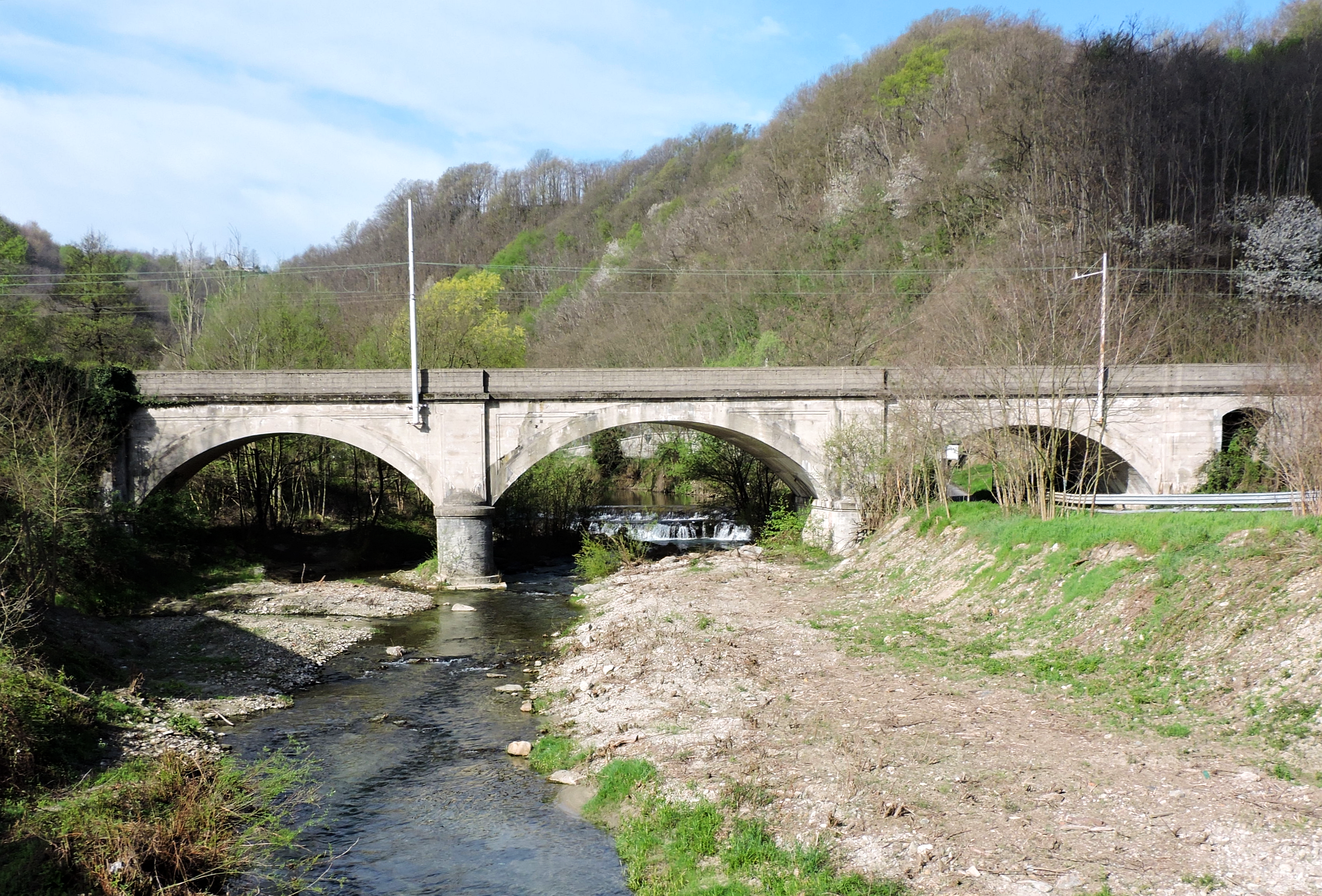 Bormida di Mallare near Altare (SV, Italy)ː Turin–Fossano–Savona railway bridge